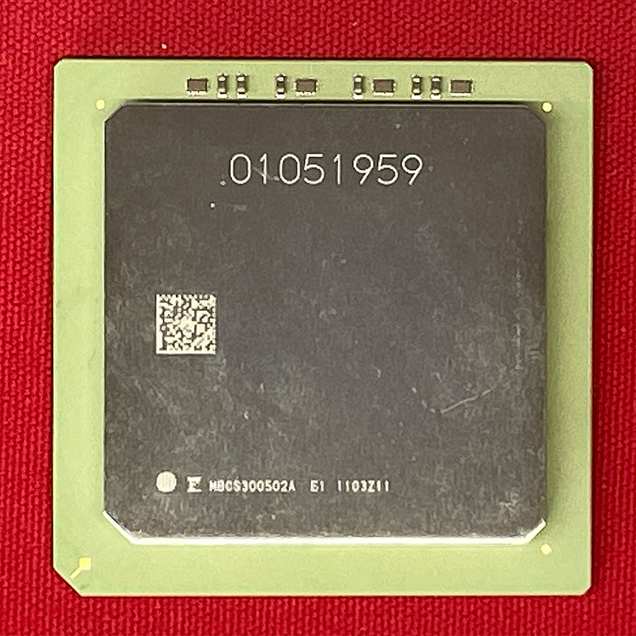 The photographer took a picture of the SPARC64 VIIIfx Processor on display at the Osaka Science Museum.